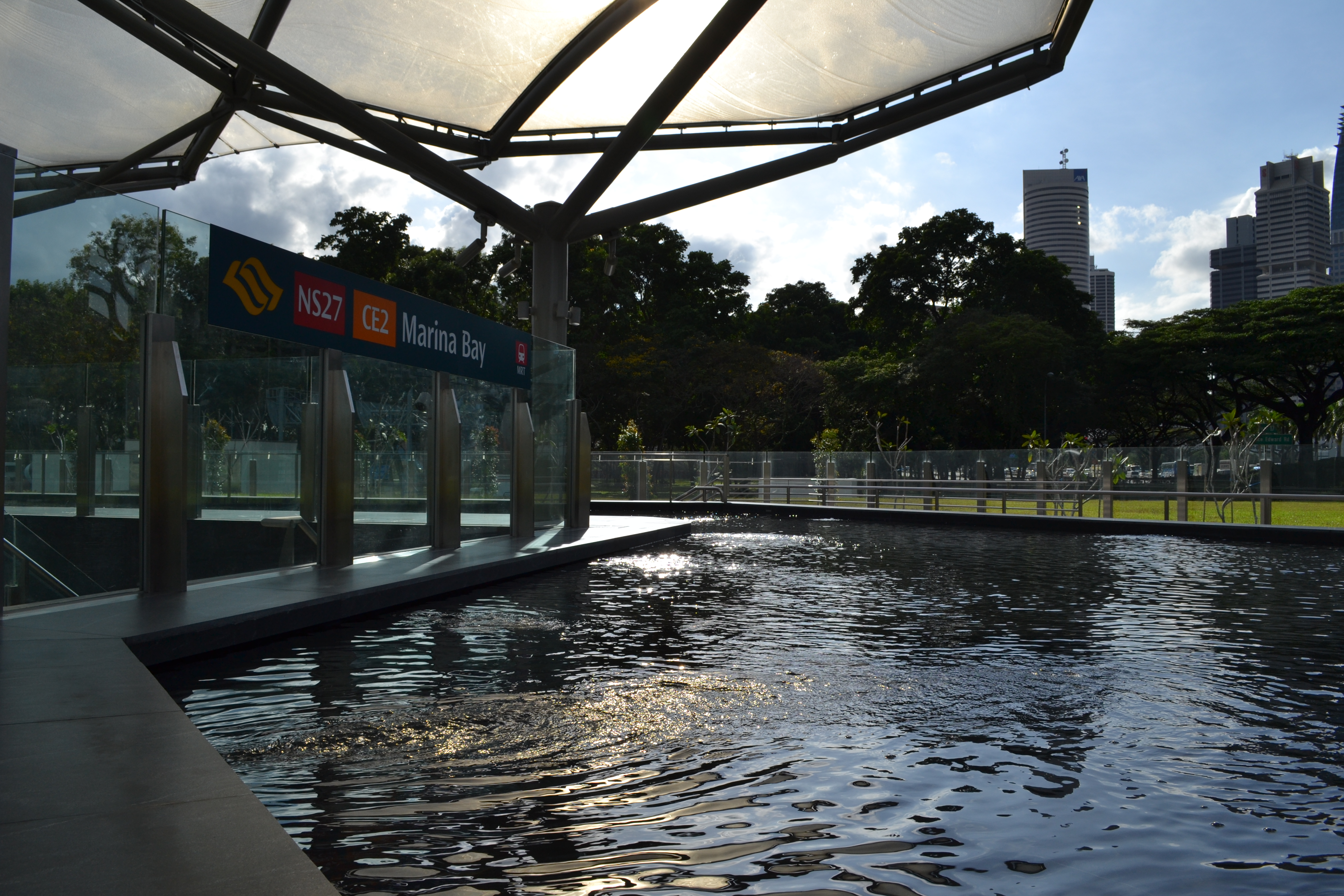 Marina Bay CCL Exit